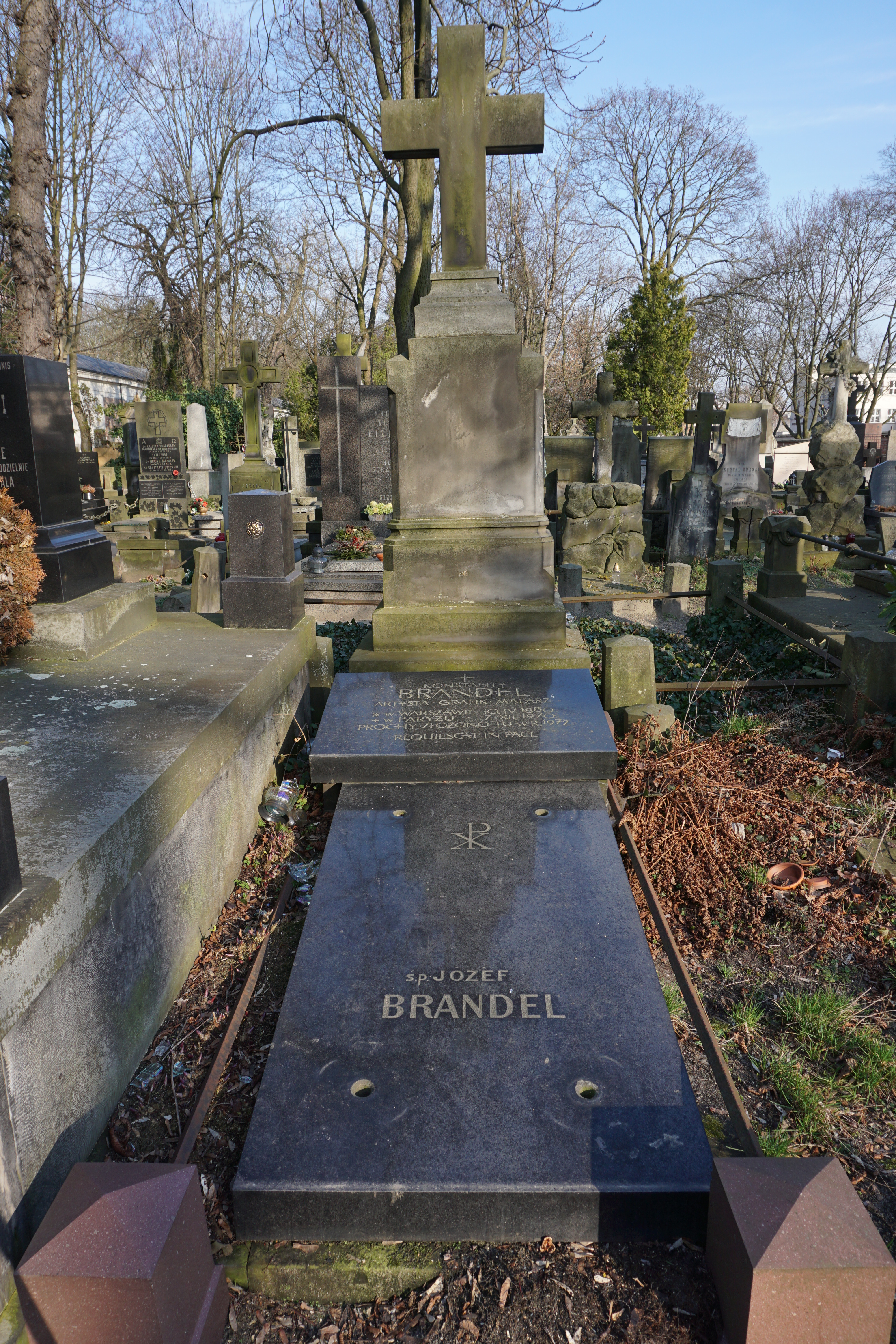 The grave of Konstanty Brandel at the Powązki Cemetery (section 174, row 4, grave 29)